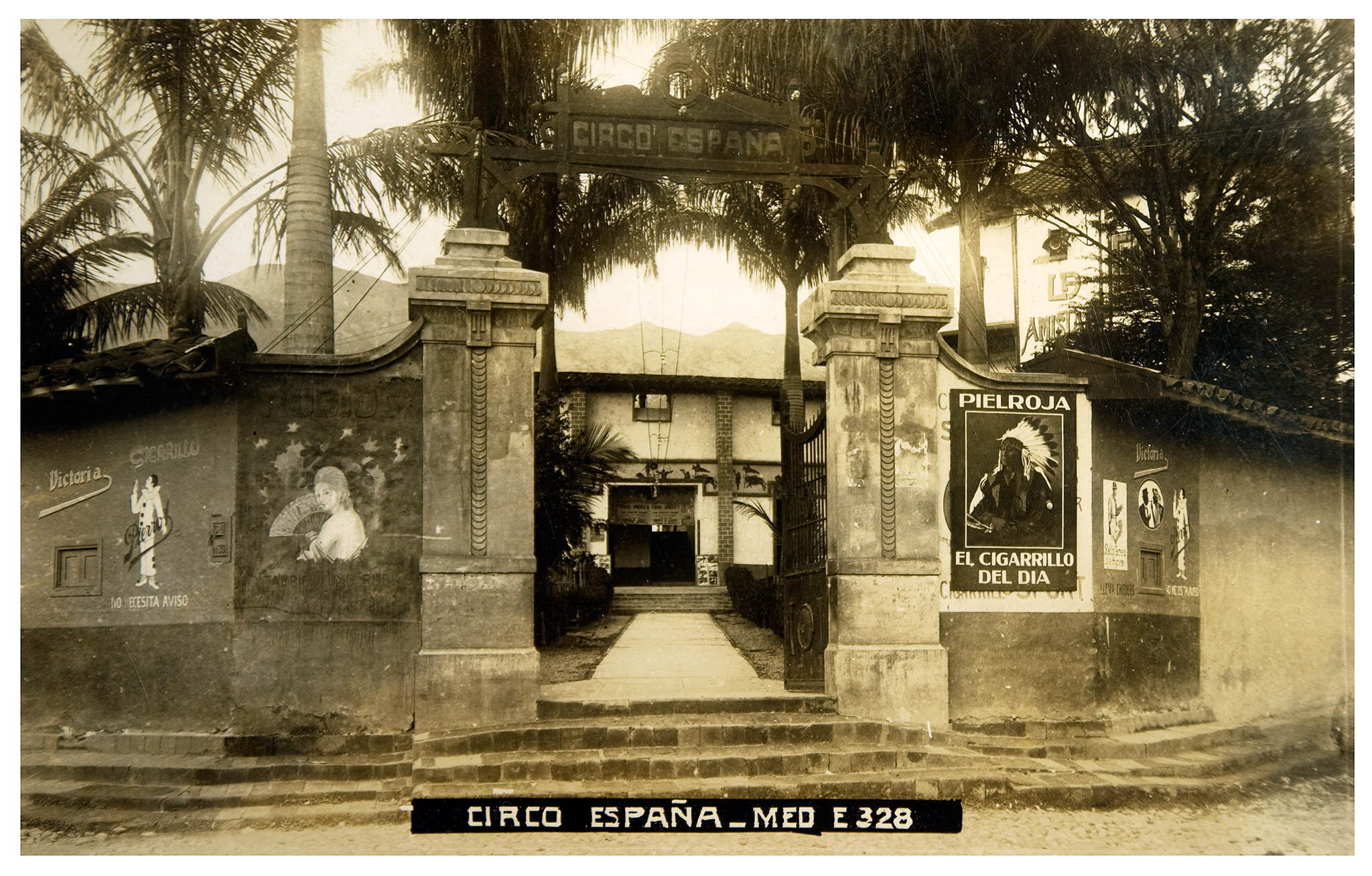 Circo España. Medellín, 1922